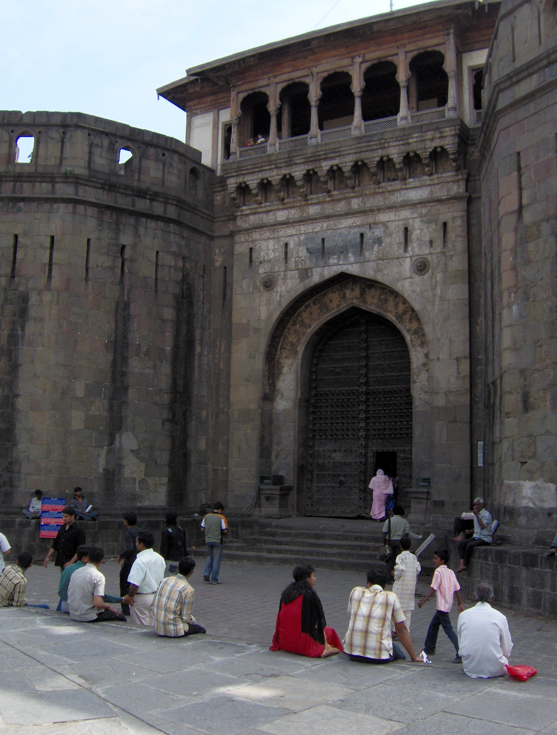 The famous Delhi Gate at the Shaniwar Wada (the fortress of the Peshwas, now ruined except for the ramparts) at Pune. QuartierLatin1968 05:19, 12 December 2005 (UTC)